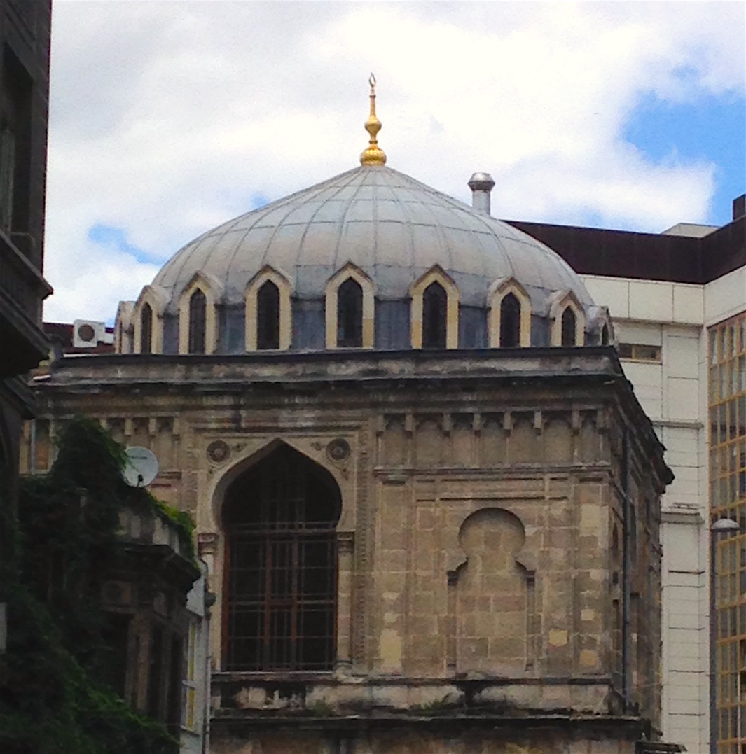 Image showing the dome of the Hidayet Mosque, with its 21 small windows around it, and one of the larger Orientalist-style windows below.